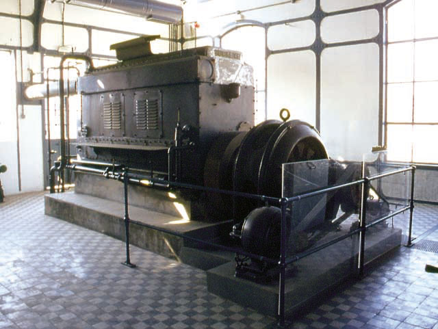 Diesel engine, image from the Waterworks Museum, Thessaloniki, Central Macedonia, Greece